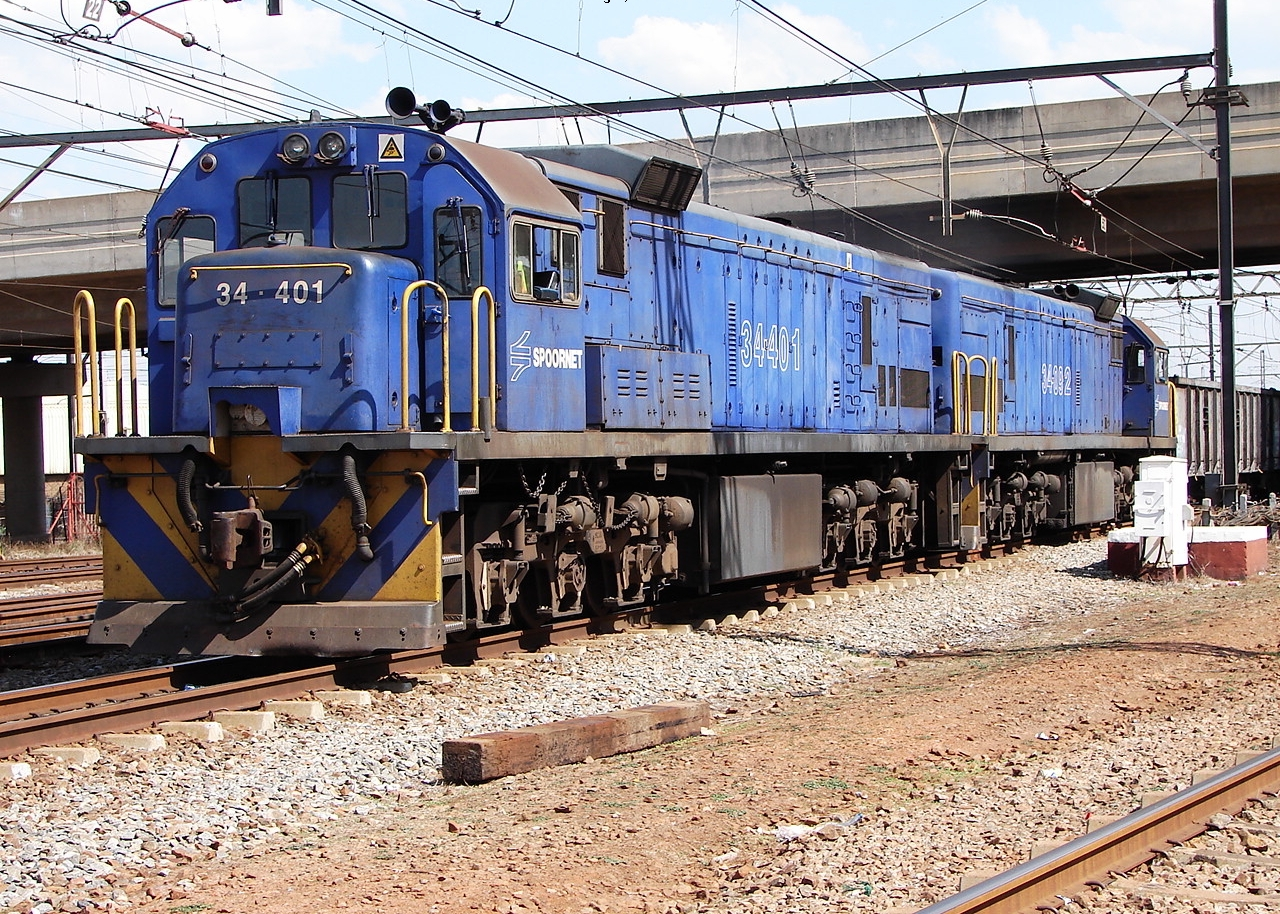 South African Class 34-400 34-401Builder's Number: GE 38623 Type: GE U26CLocation: Kaalfontein, Gauteng